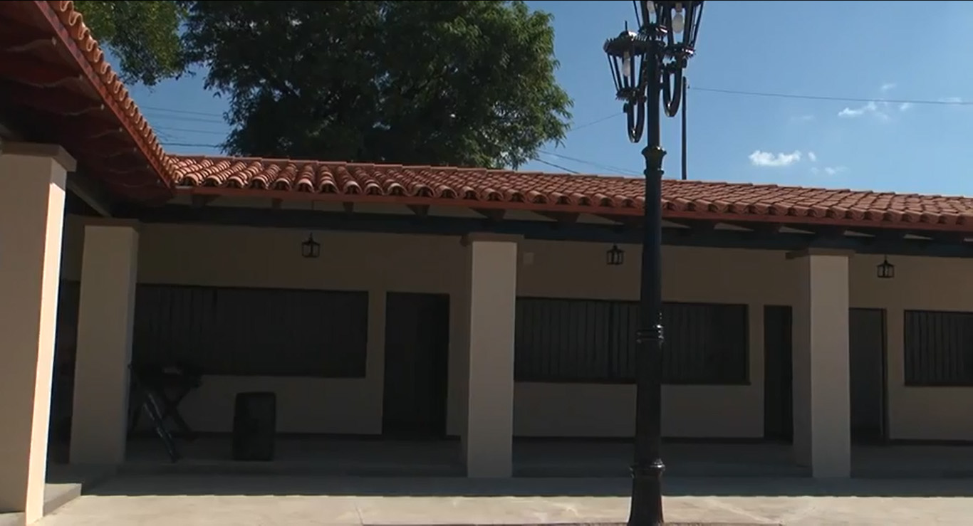 Anfiteatro Eduardo Falú de la ciudad de Salta. Patio de comidas